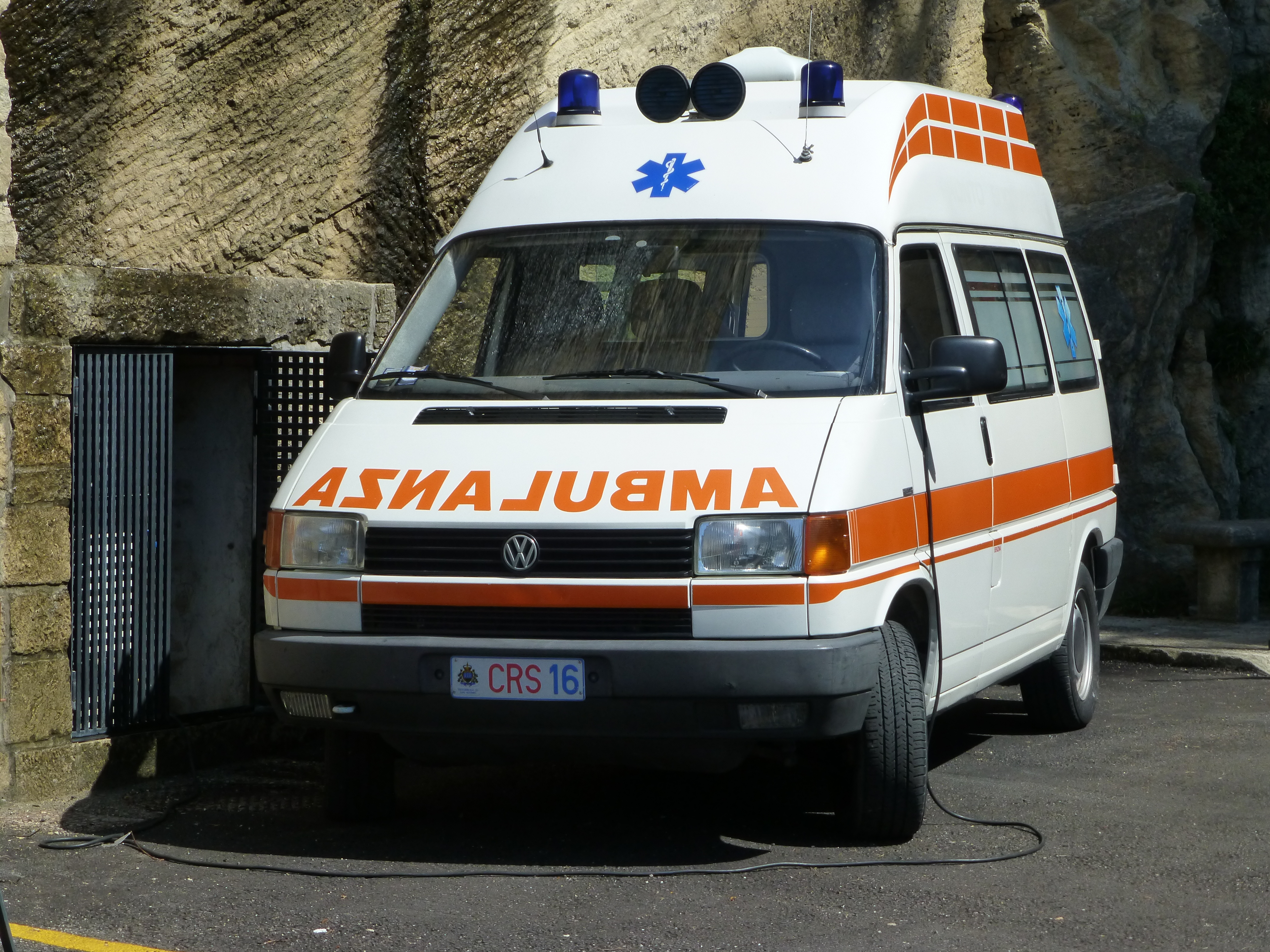 Volkswagen T4 as Ambulance vehicle, Red Cross of San Marino